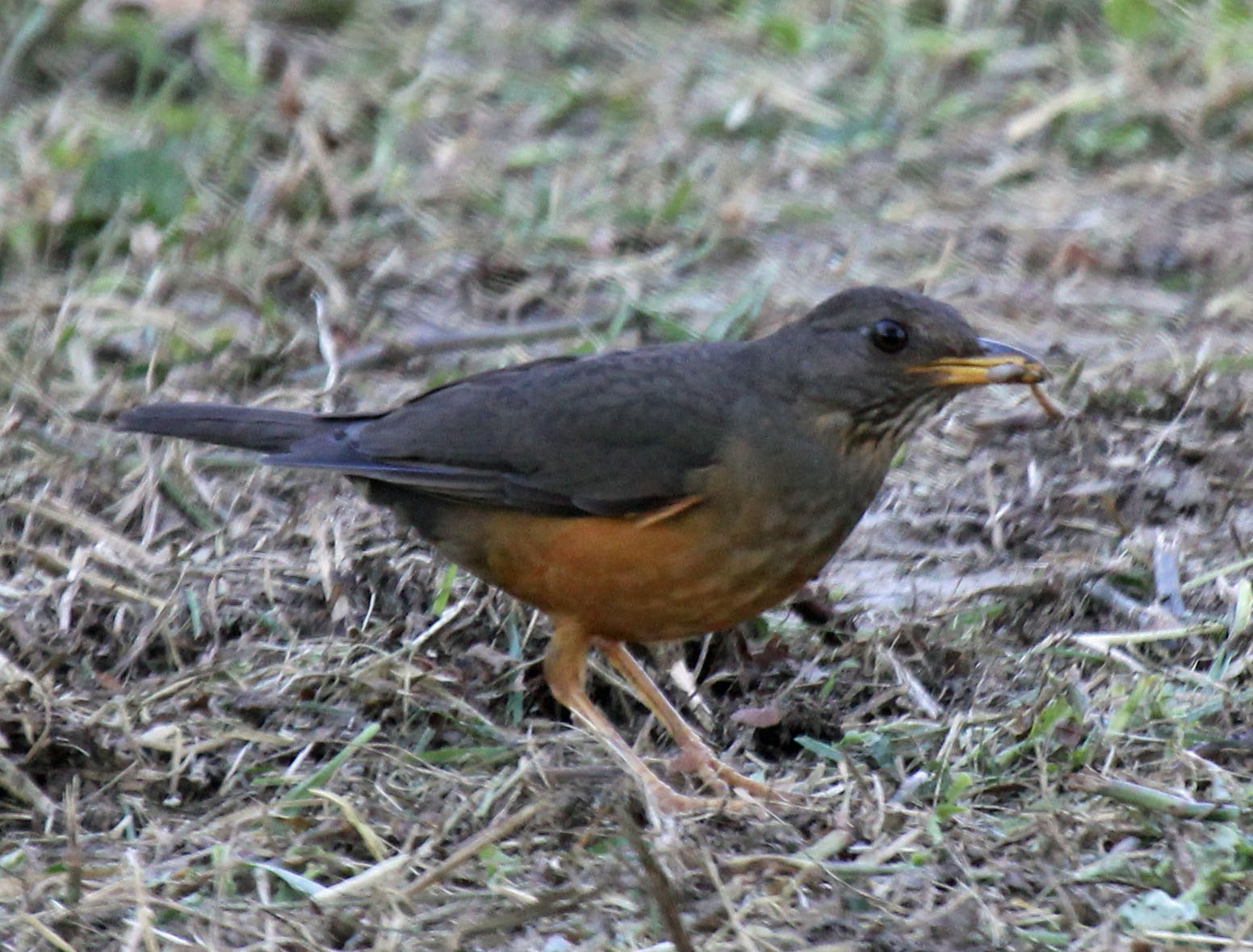 Olive Thrush (Turdus olivaceus) at Plettenberg Bay, South Africa